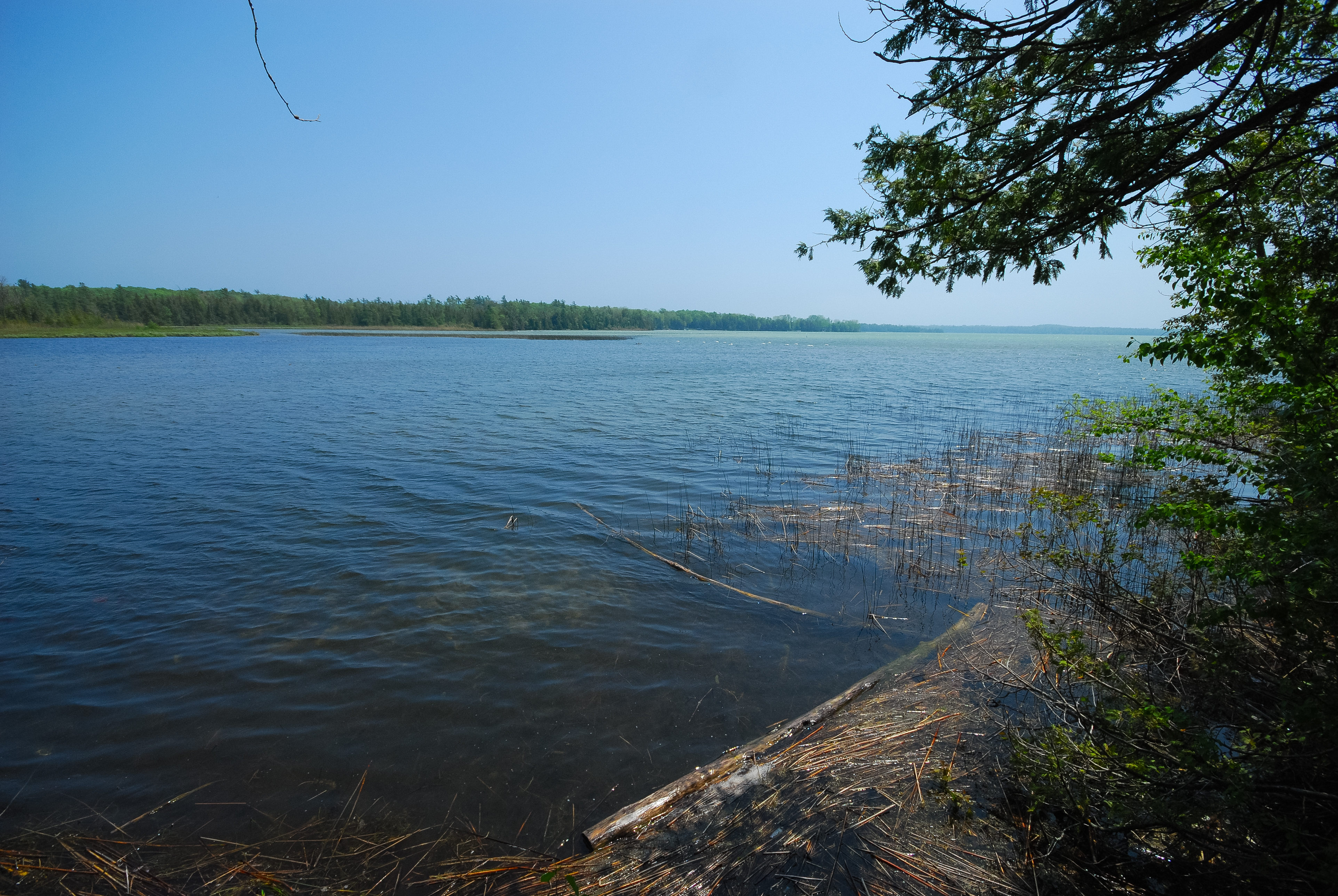 Clark Lake, Door County, Wisconsin. It is within the towns of Sevastopol and Jacksonport.